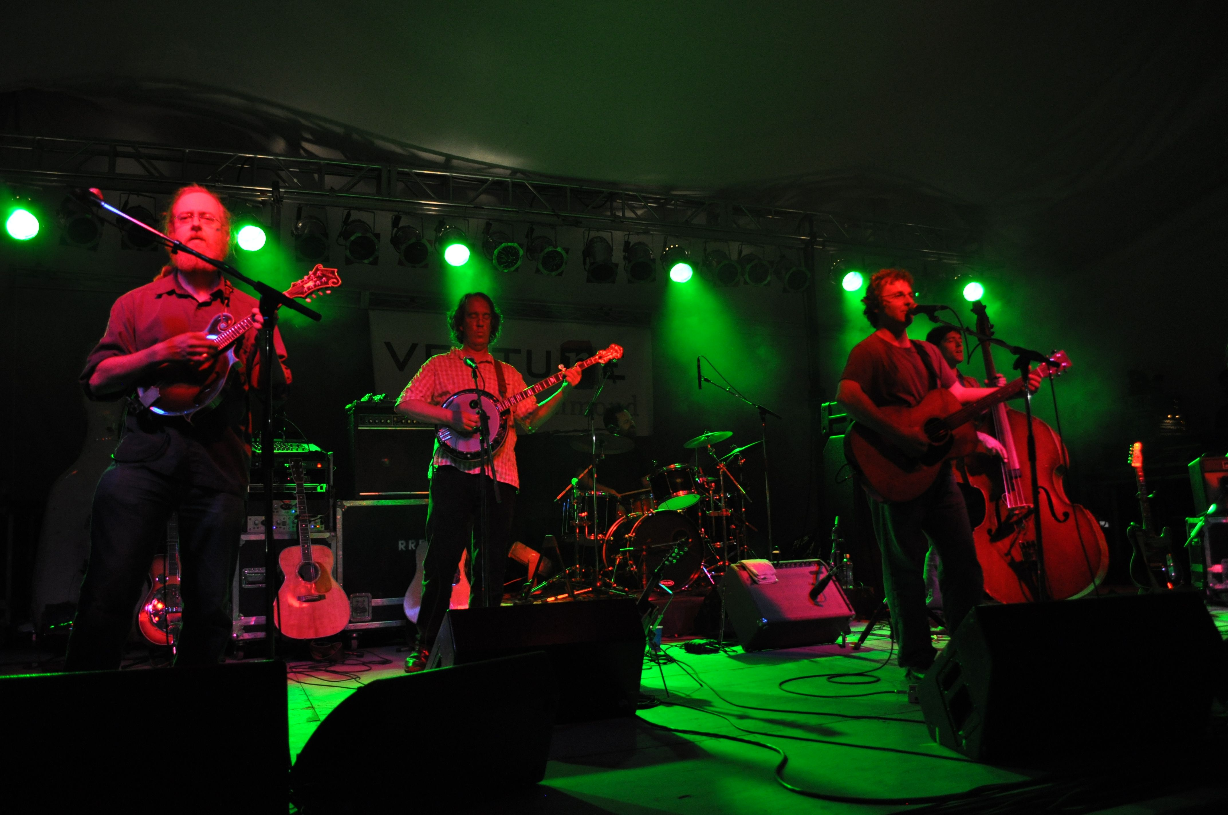 The current lineup of Railroad Earth playing Friday Cheers on May 21, 2010 in Richmond, Virginia.